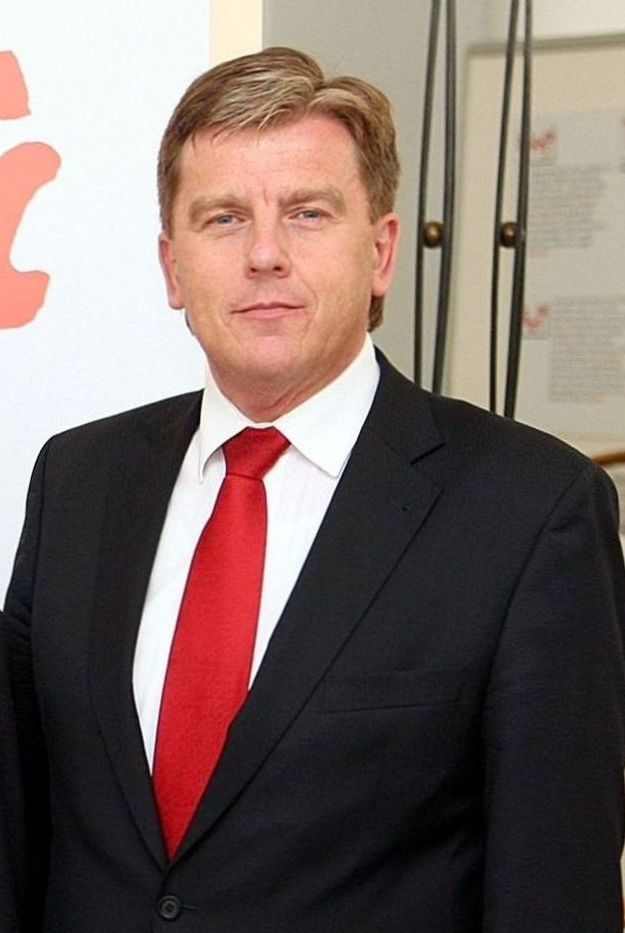 Přemysl Sobotka, Katalin Szili, Bogdan Borusewicz and Miloslav Vlček. Meeting of Presidents of National Parliaments of the Visegrád Group in the Polish Senate